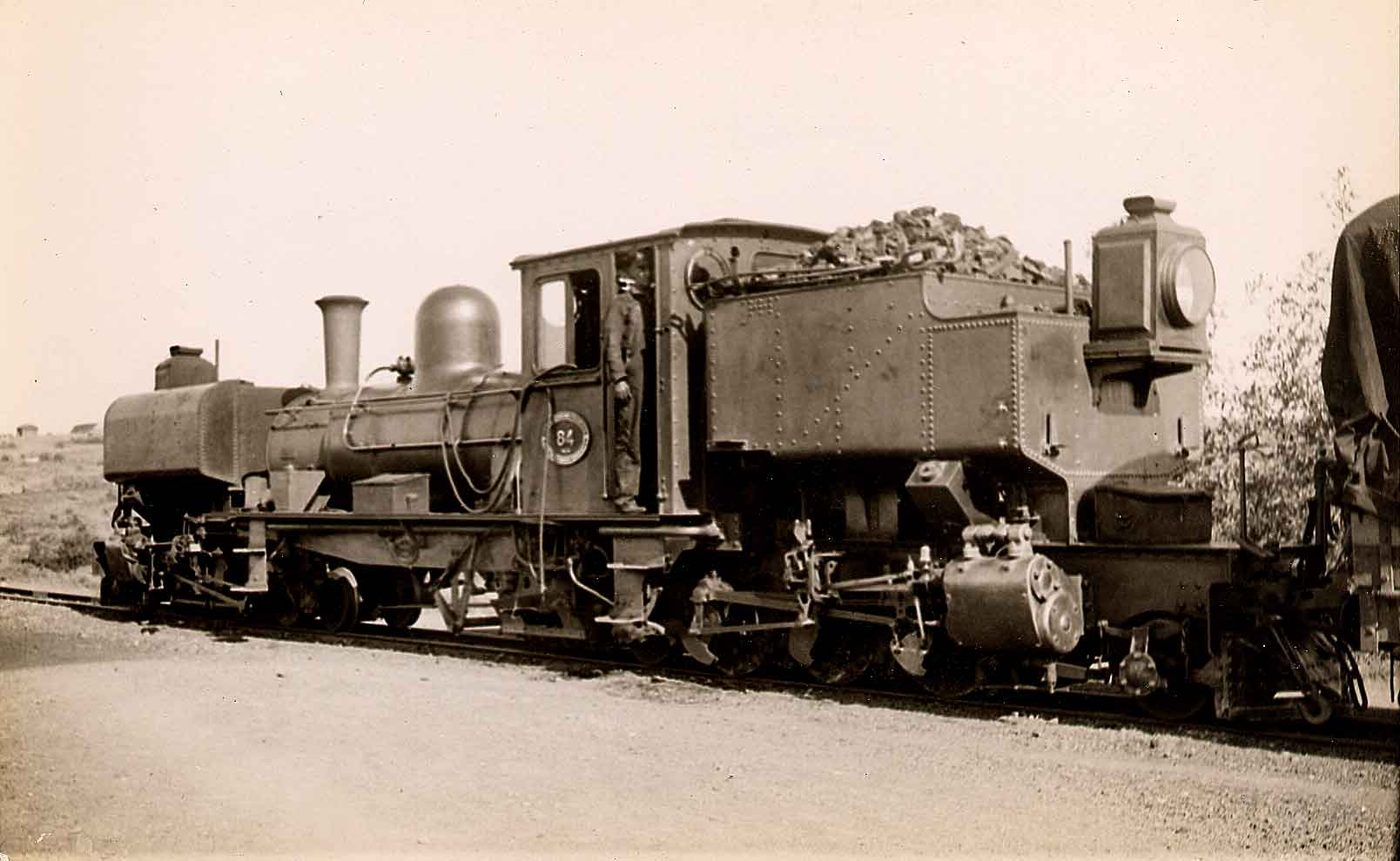 Class NG G14 84 (2-6-2+2-6-2) Builder's works number: Hanomag 10747